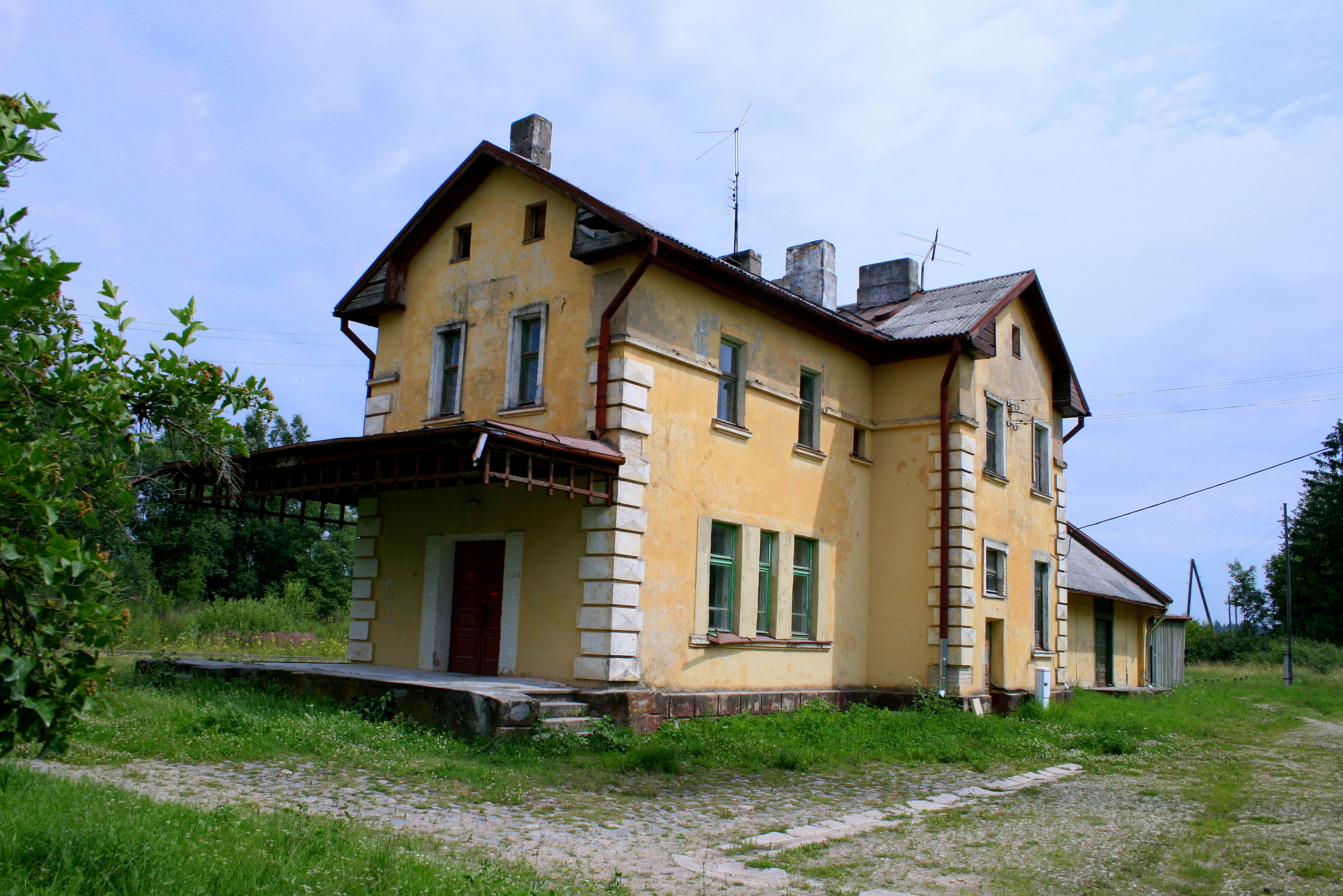 Suntaži railway station on Rīga Preču–Ērgļi lineLatviešu: Suntažu stacija